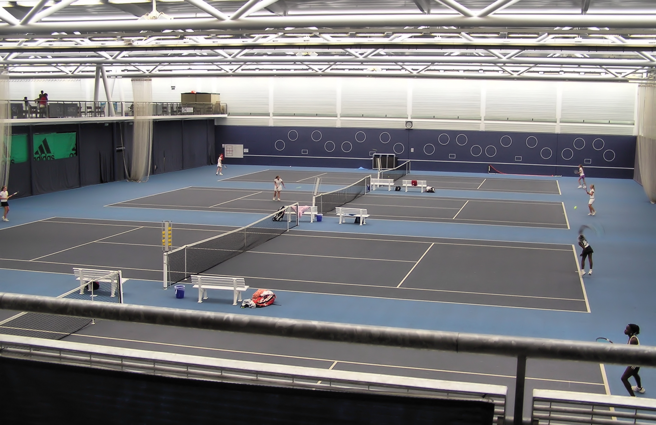 The University of Bath Sports Training Village indoor tennis courts (not all of them), Bath, England.